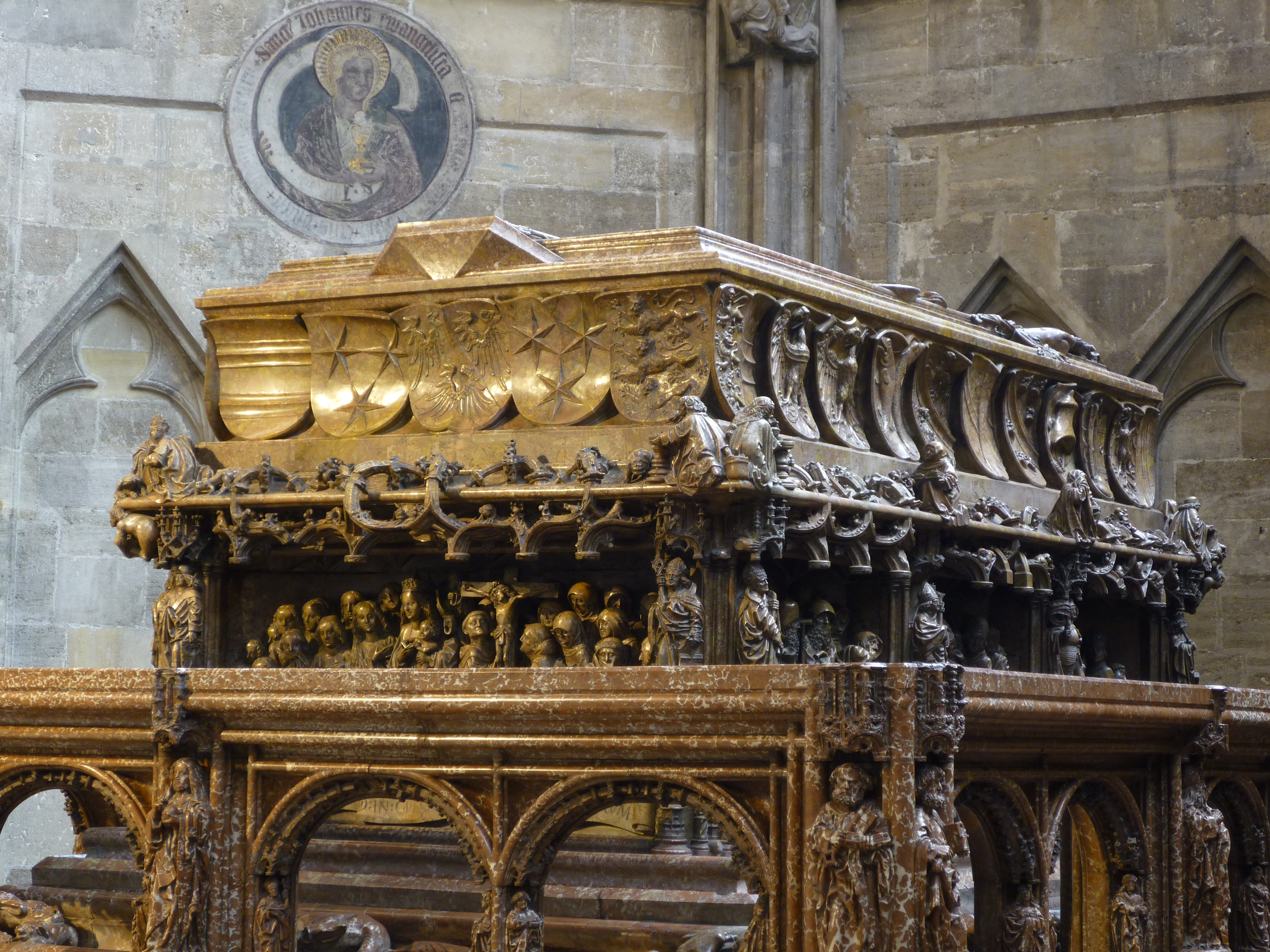 Tomb of emperor Frederick III by Niclas Gerhaert van Leyden in St. Stephen's Cathedral, Vienna